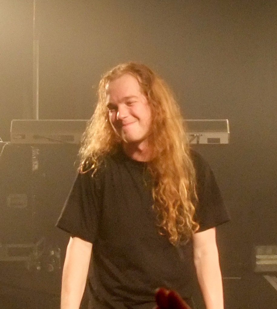 Ariën van Weesenbeek of Epica at The Scala in London, 15th March 2011